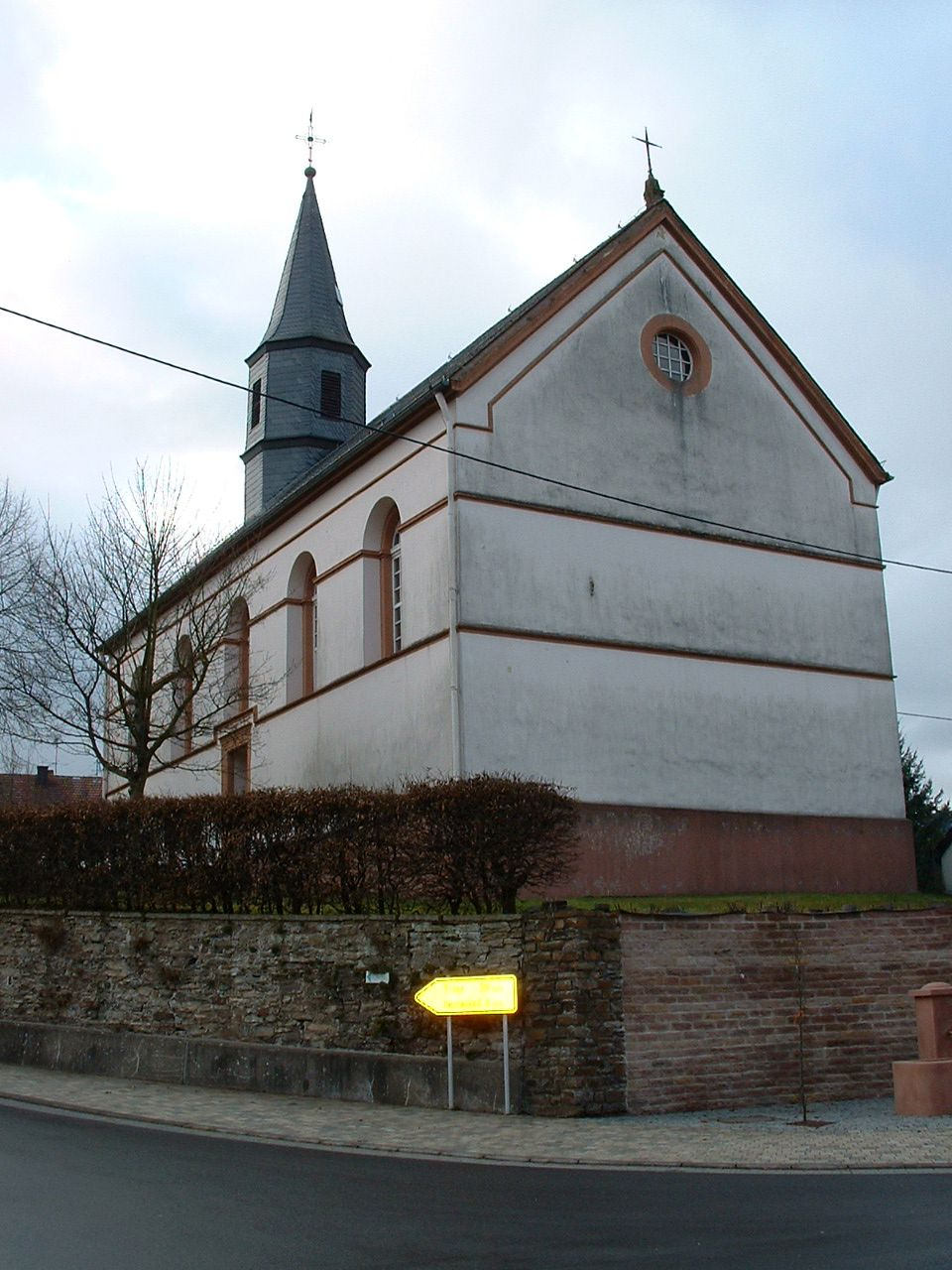 Protestant Church, Zuesch